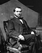 Photograph of senator John Pool.